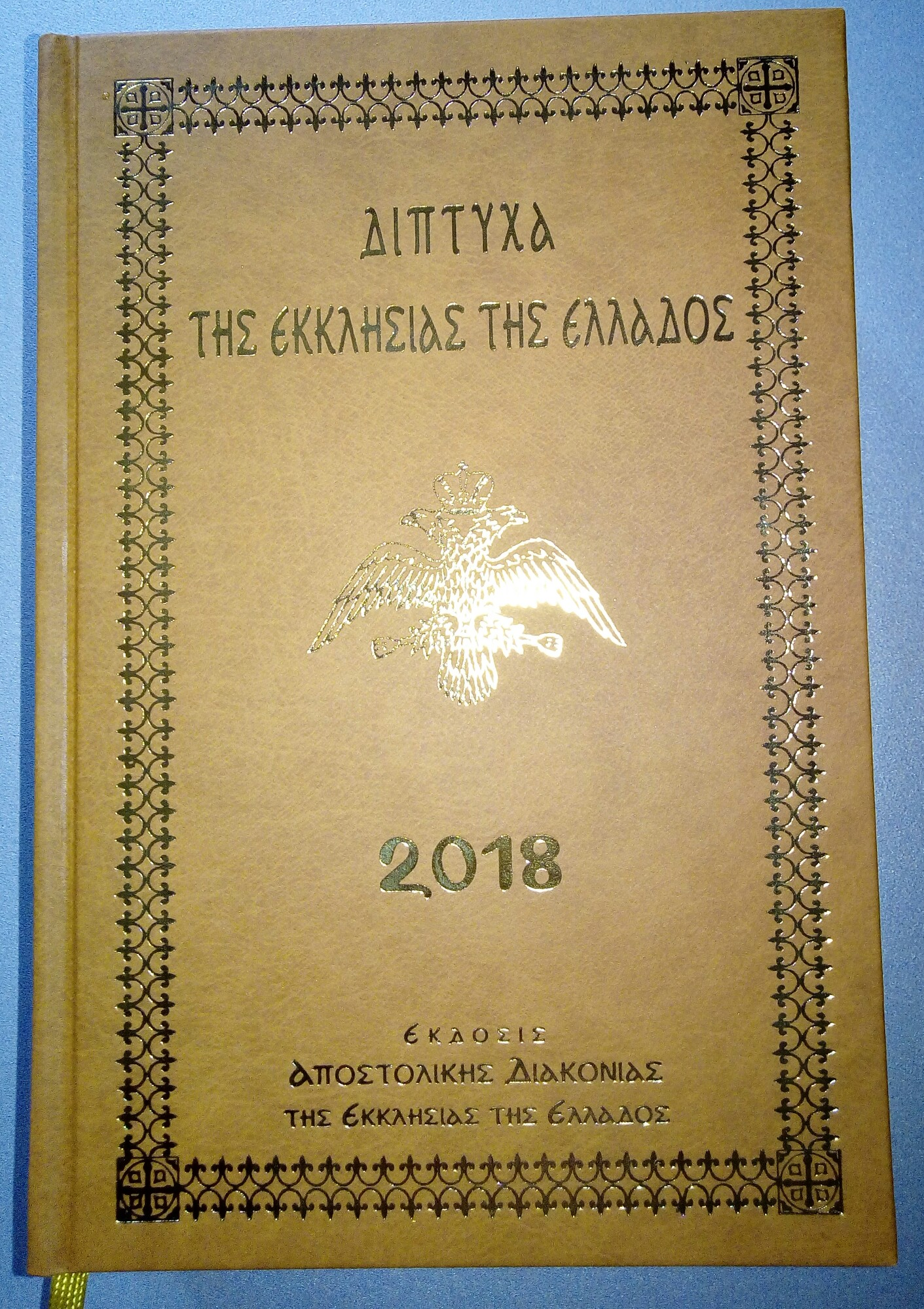 Diptych of the Orthodox Church of Greece of the year 2018